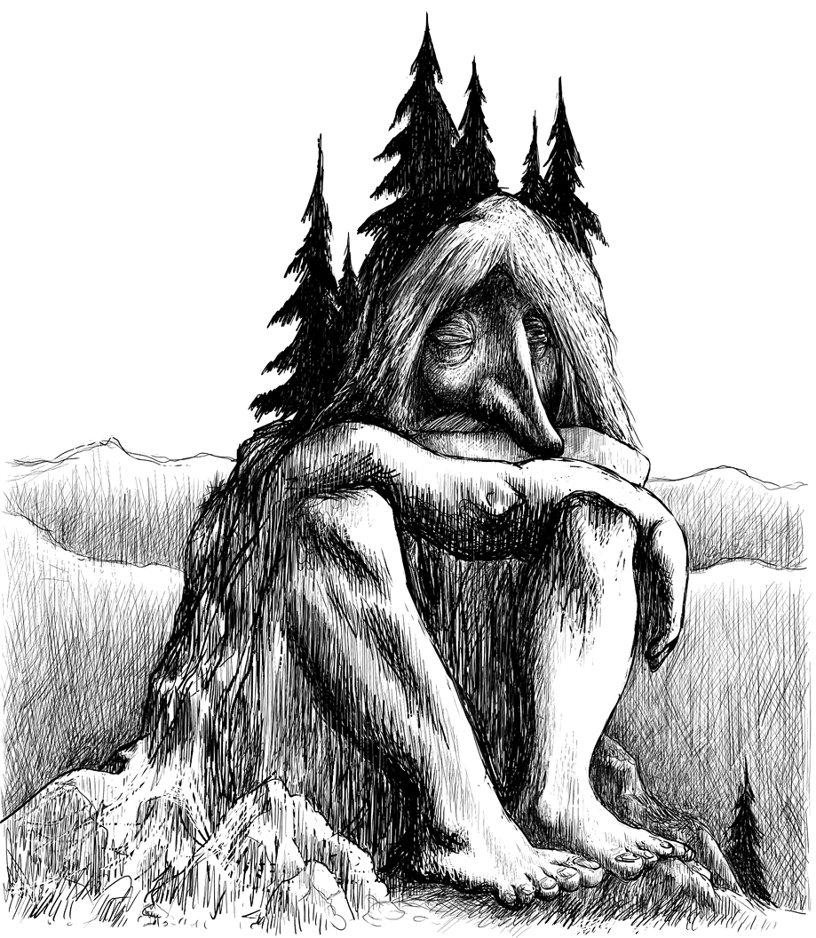 Trolls don't think very fast. This one has been caught by daylight and is now becoming a mountain. Most norwegian mountains are made of trolls like this one - say some people